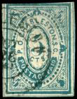 Charleston postmaster provisional stamps